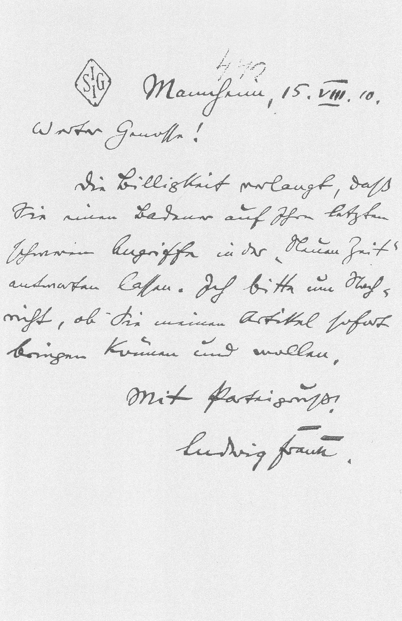 Letter of Ludwig Frank to Karl Kautsky, 15 August 1910. Frank asks Kautsky to publish his contribution in the budget approval debate.